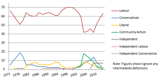 Seat total for parties between 1973-2011 on the Wigan council.